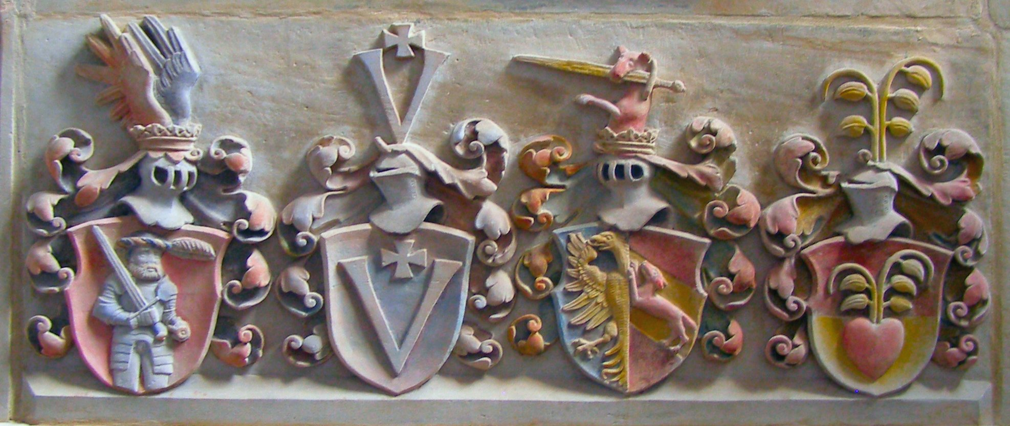 Wrocław - St. Elizabeth garrison church